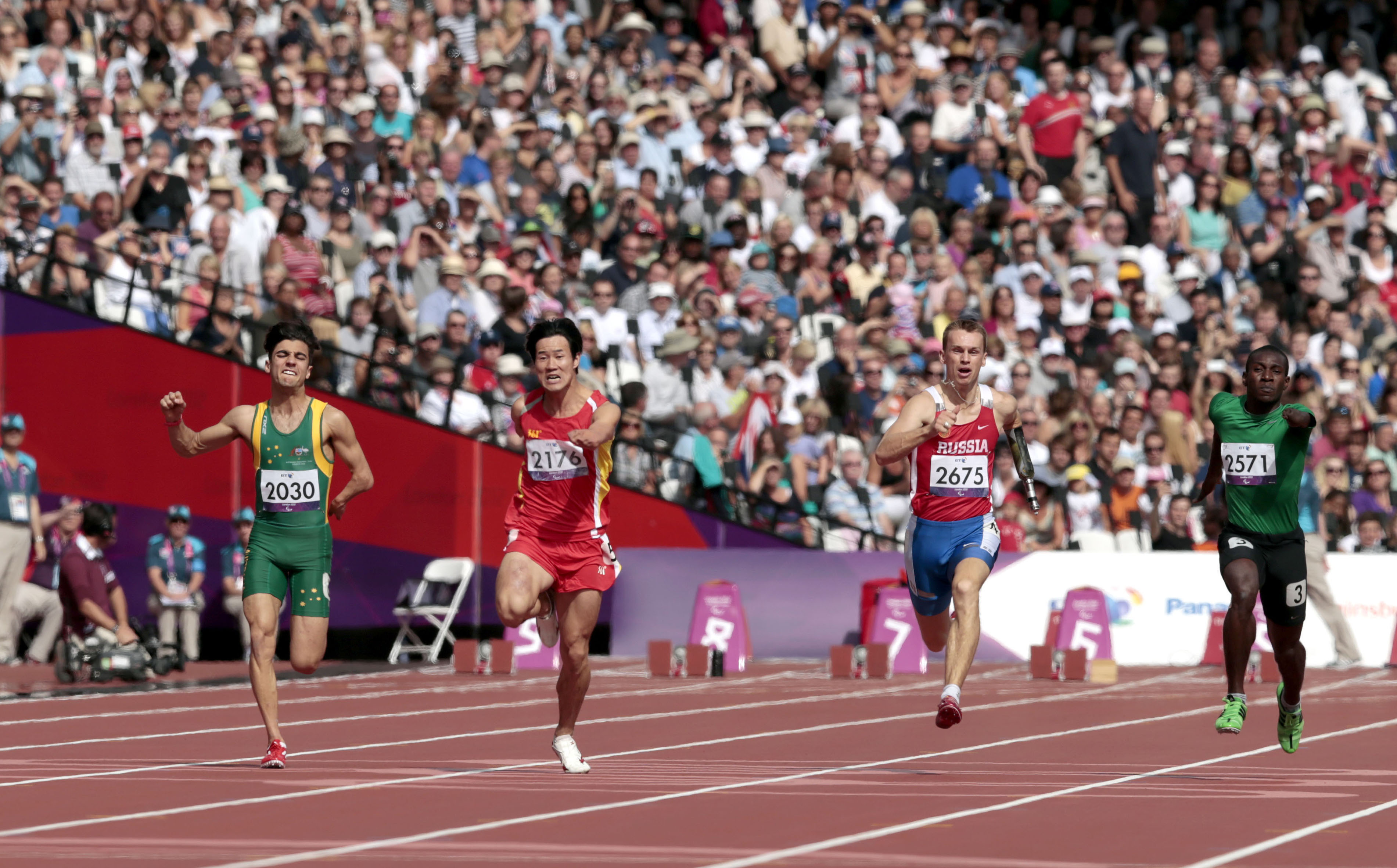 Photograph of Australian Paralympic team member Gabriel Cole at the 2012 Summer Paralympic Games in London